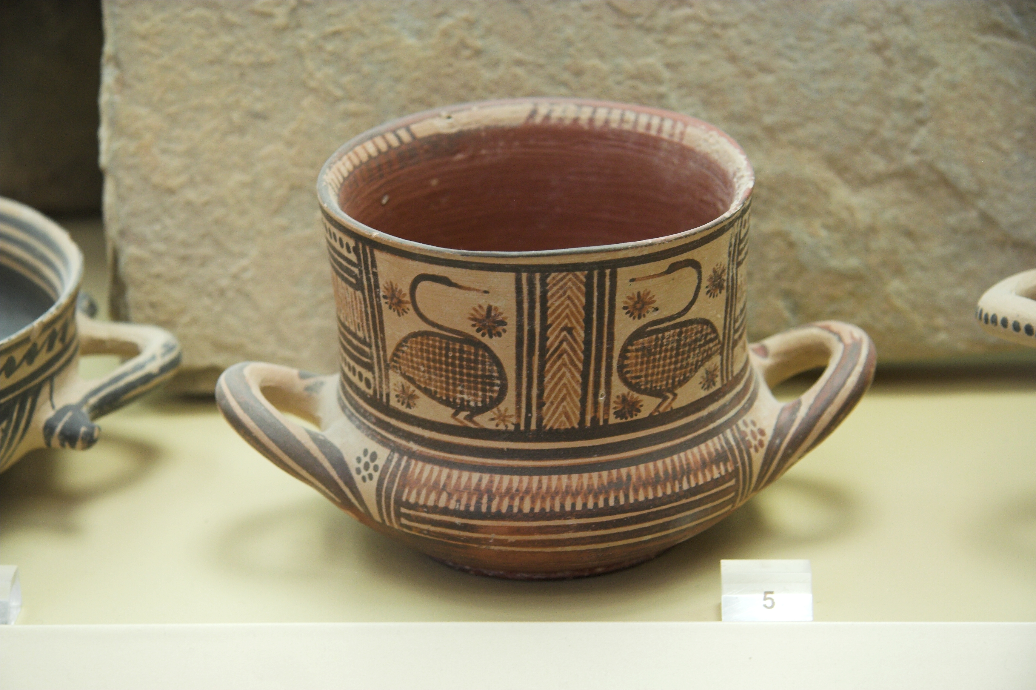 Late geometric pottery, 7th century BC. Museum of the Ancient Agora in Athens.